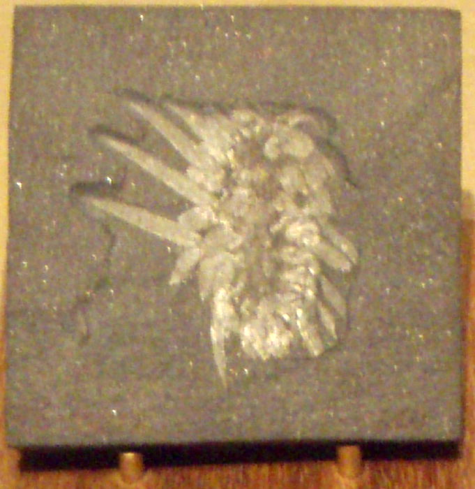 A speciman of Wiwaxia, on display at the Royal Ontario Museum, Toronto.